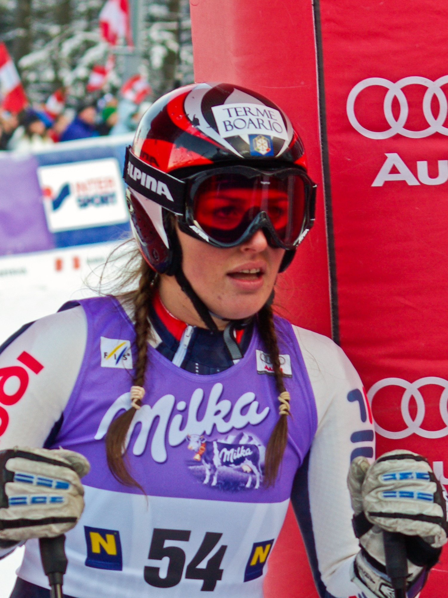 Italian alpine skier Nadia Fanchini after her second run in the giant slalom in Semmering (Austria) on 28 December 2008.